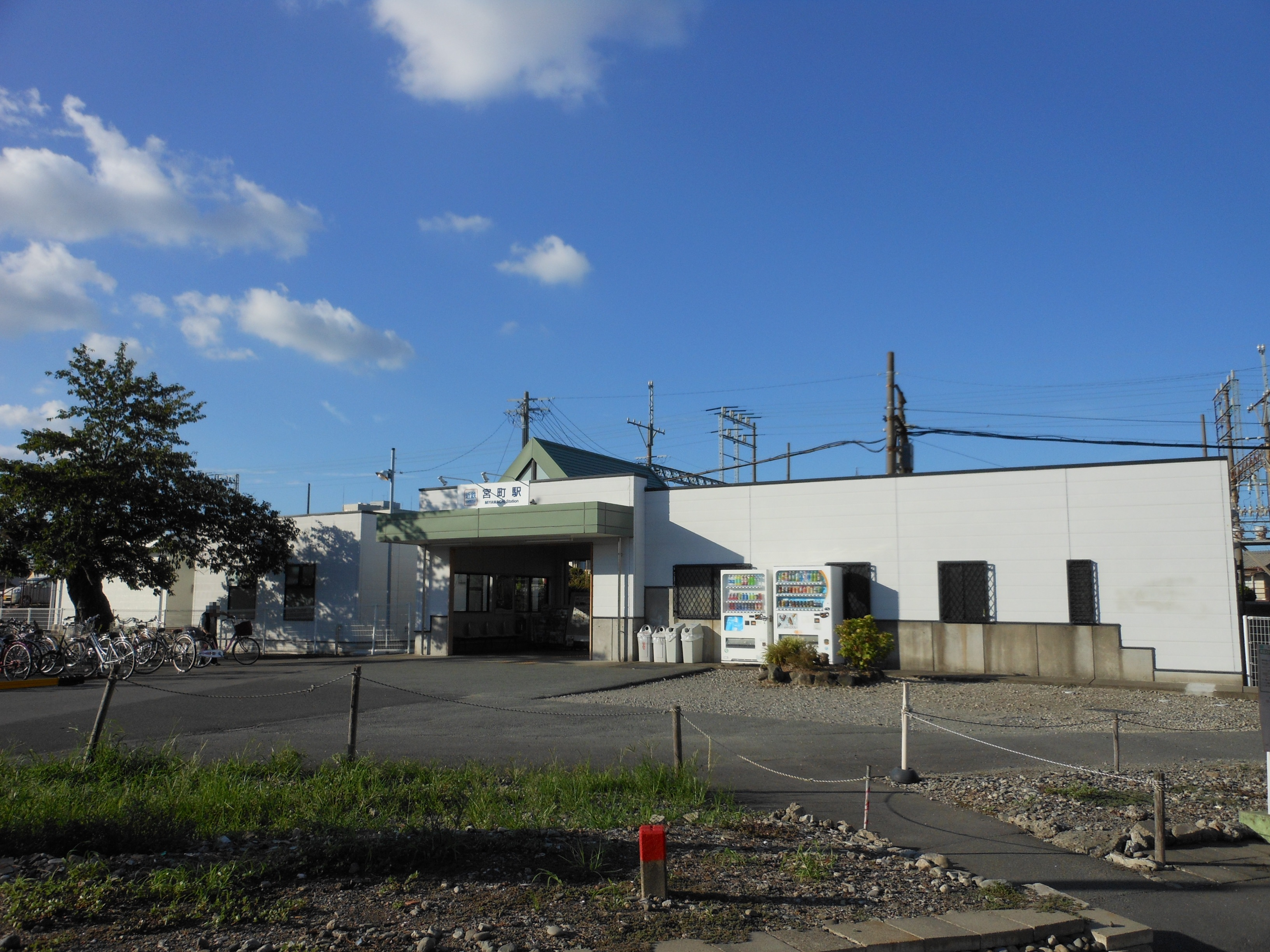 This is the west exit of Kintetsu Miyamachi station in Ise, Mie, Japan.